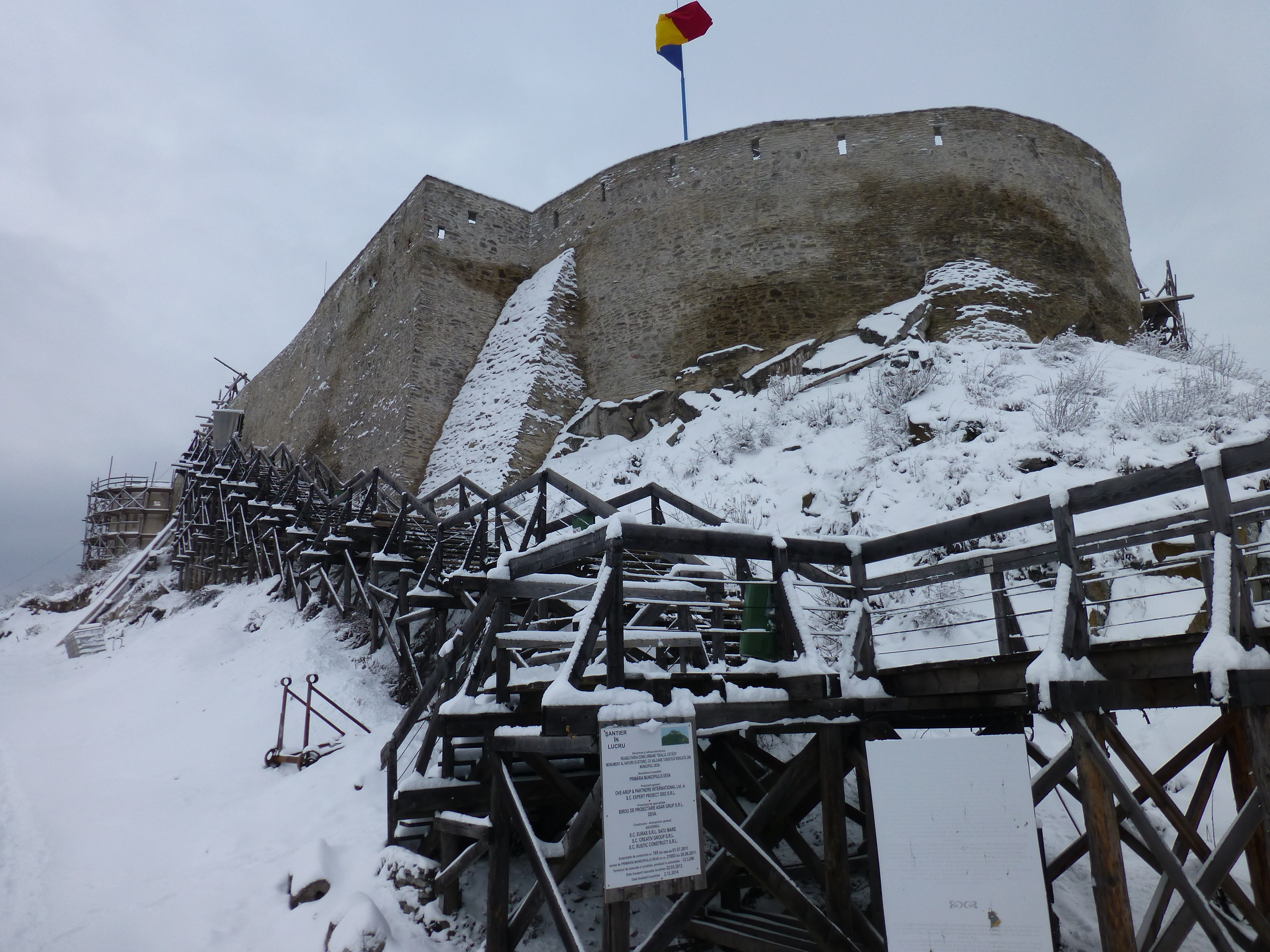 Fortress of Deva under restoration